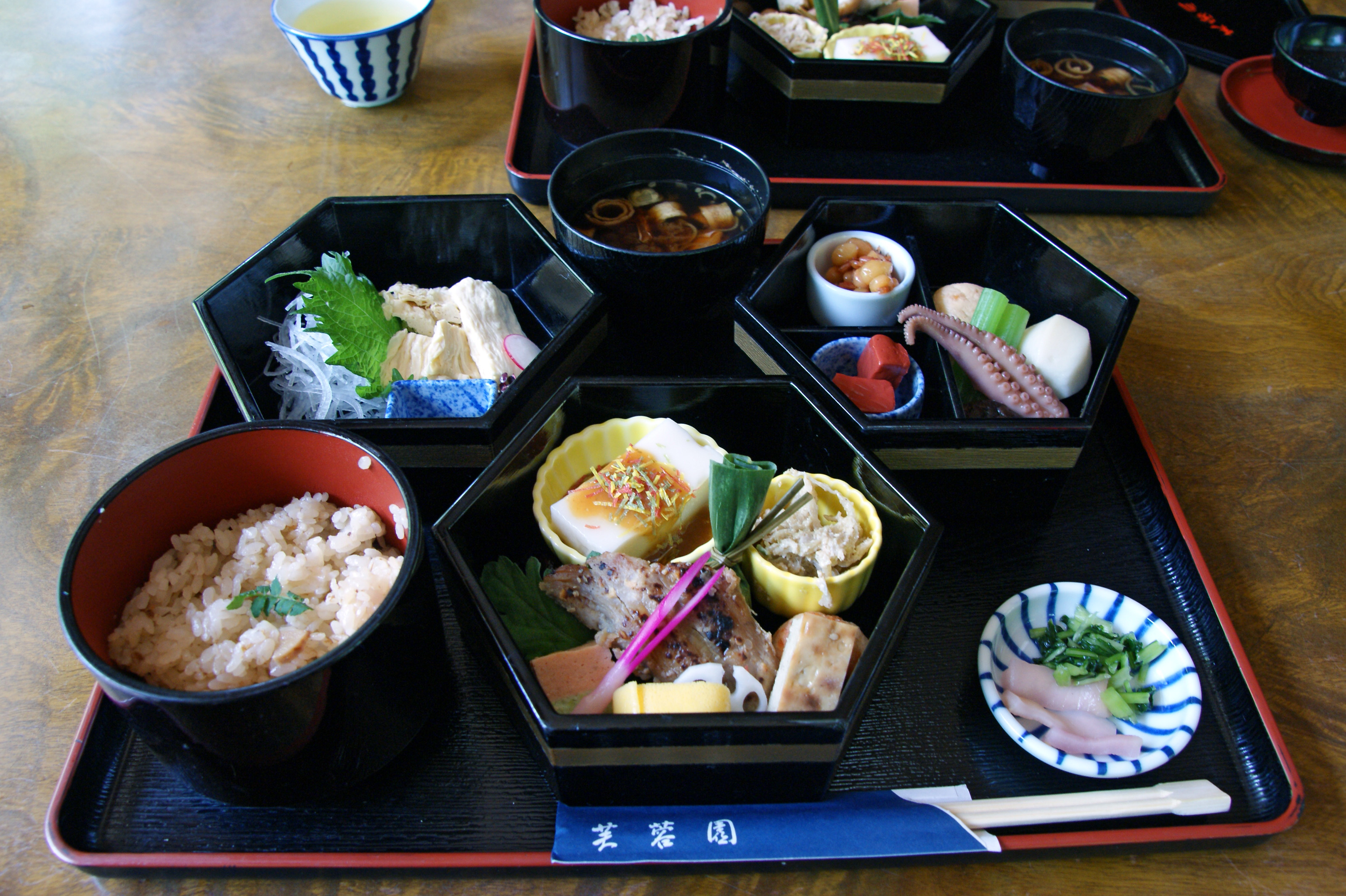 A casual kaiseki of Fuyoen in Otsu, Shiga prefecture, Japan